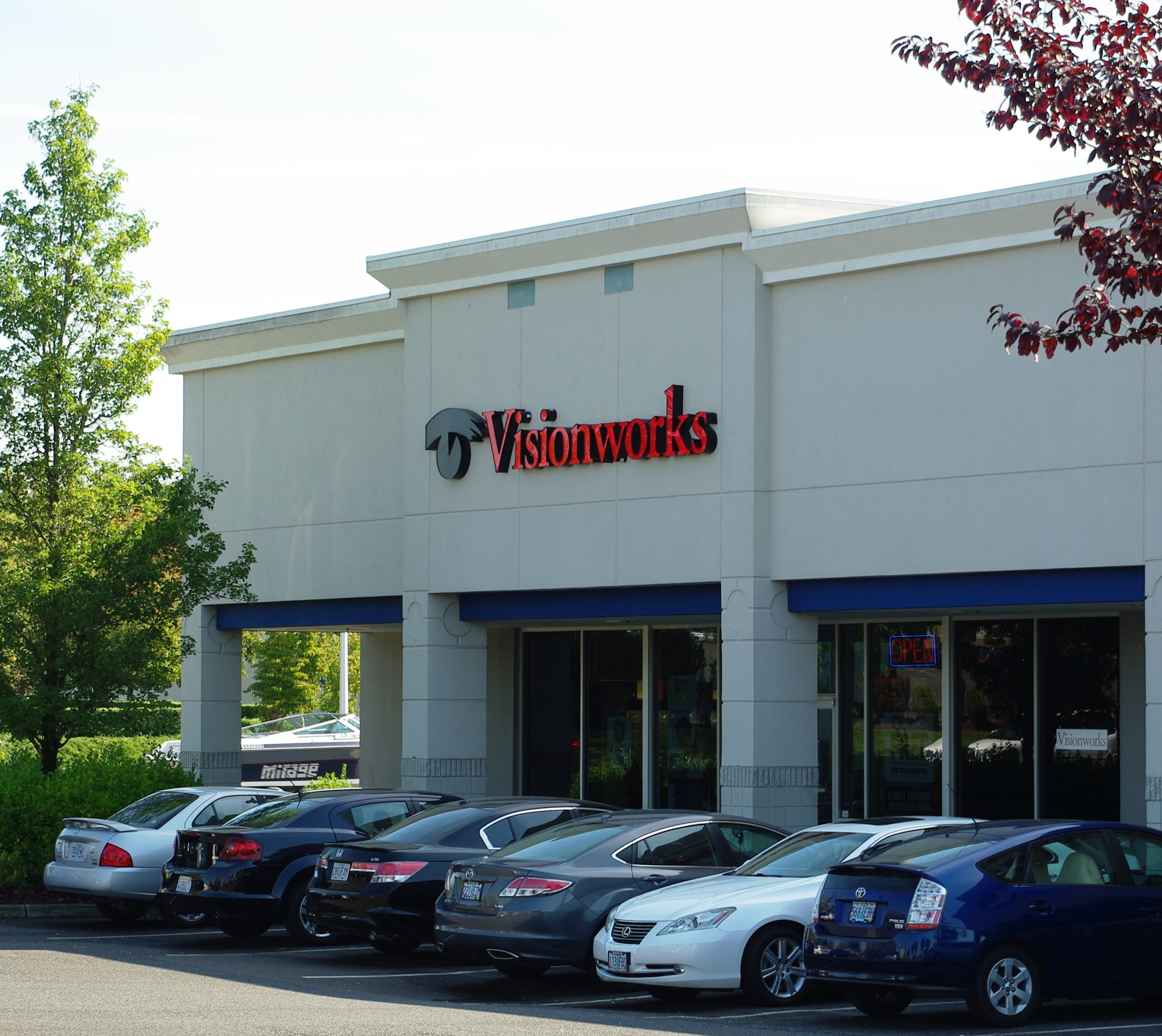 Visionworks in the Tanasbourne area of Hillsboro, Oregon. This was a Binyon's Eyeworld store until July 2011, when parent company Eye Care Centers of America rebranded all of the Binyon's stores as Visionworks.